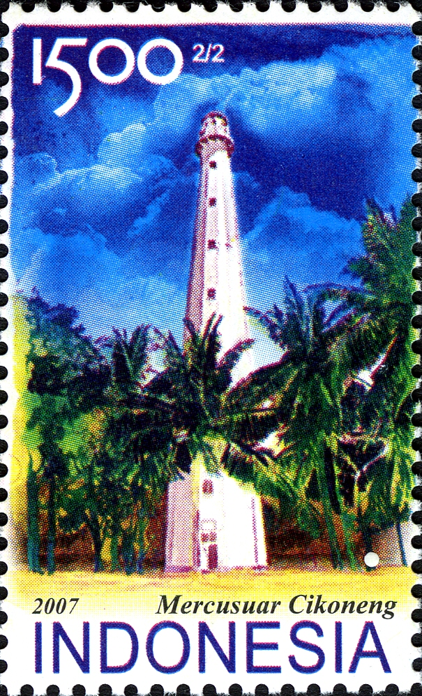 Stamps of Indonesia